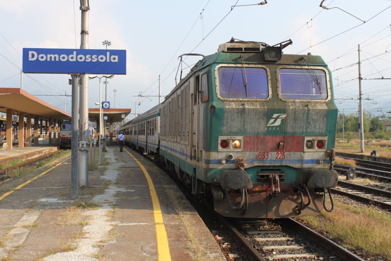 FS E633.225 at Domodossola.